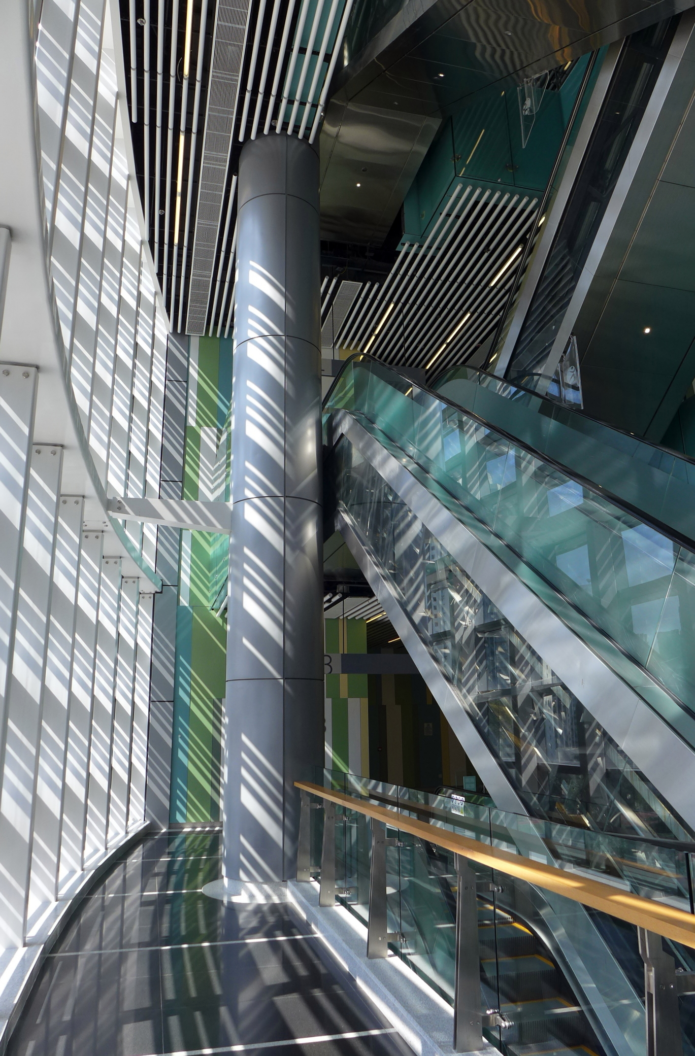 Lam Tin Complex Void